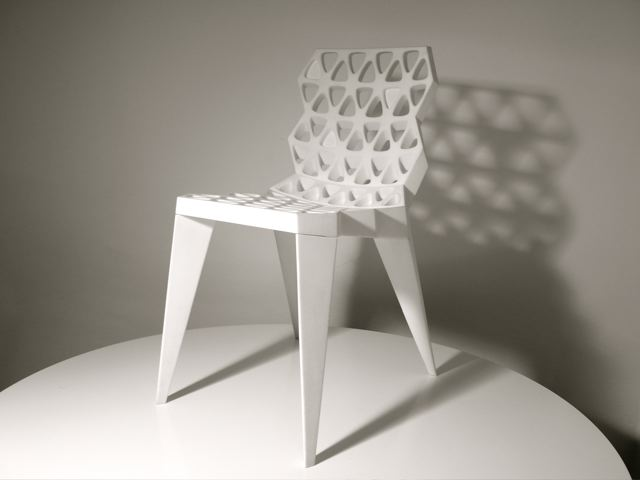 Picture of the SINTERCHAIR 1.0 series. Design by german designers Vogt + Weizenegger. Prototype.